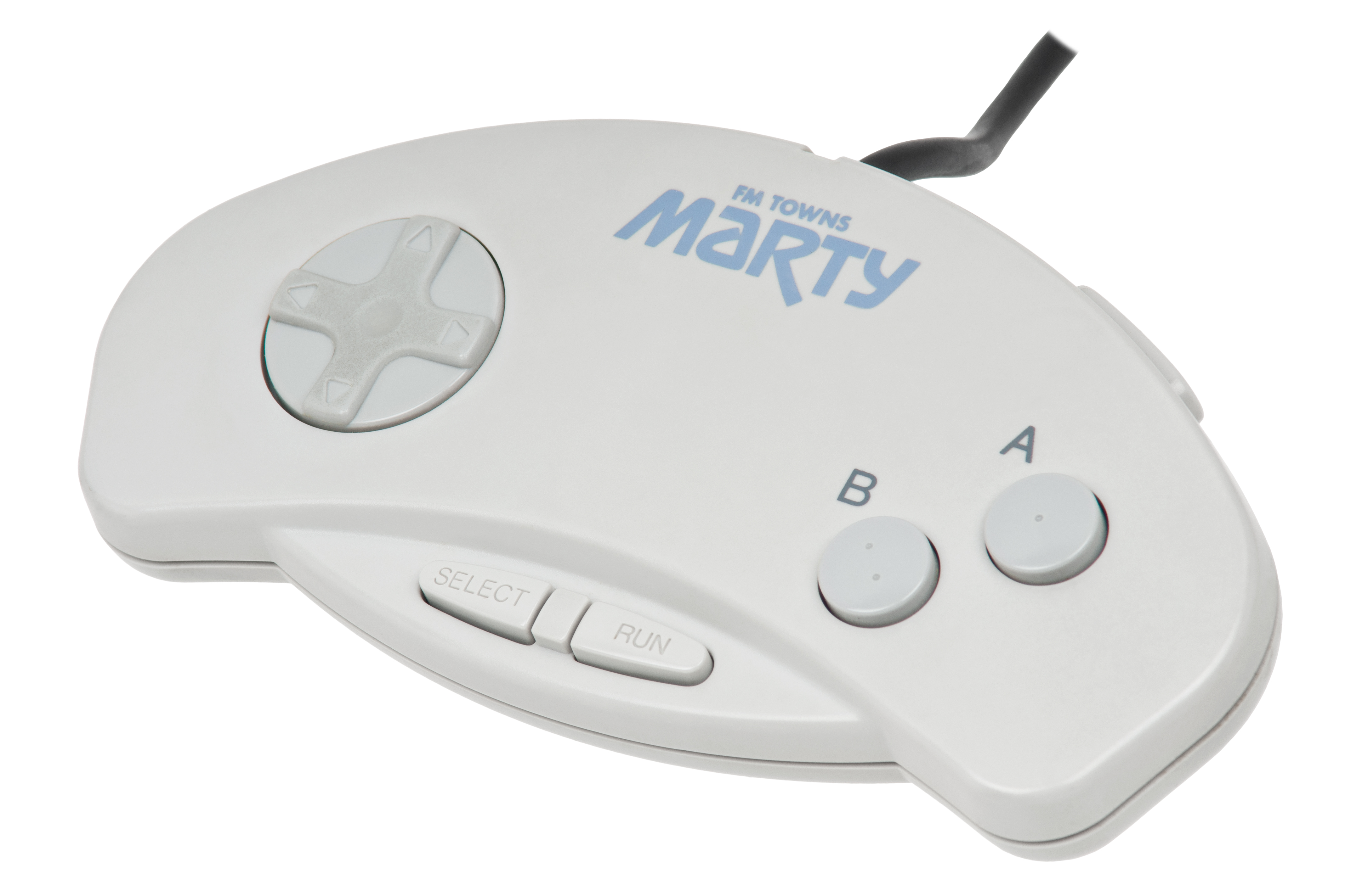 The controller to an FM Towns Marty video game console, released only in Japan by Fujitsu.